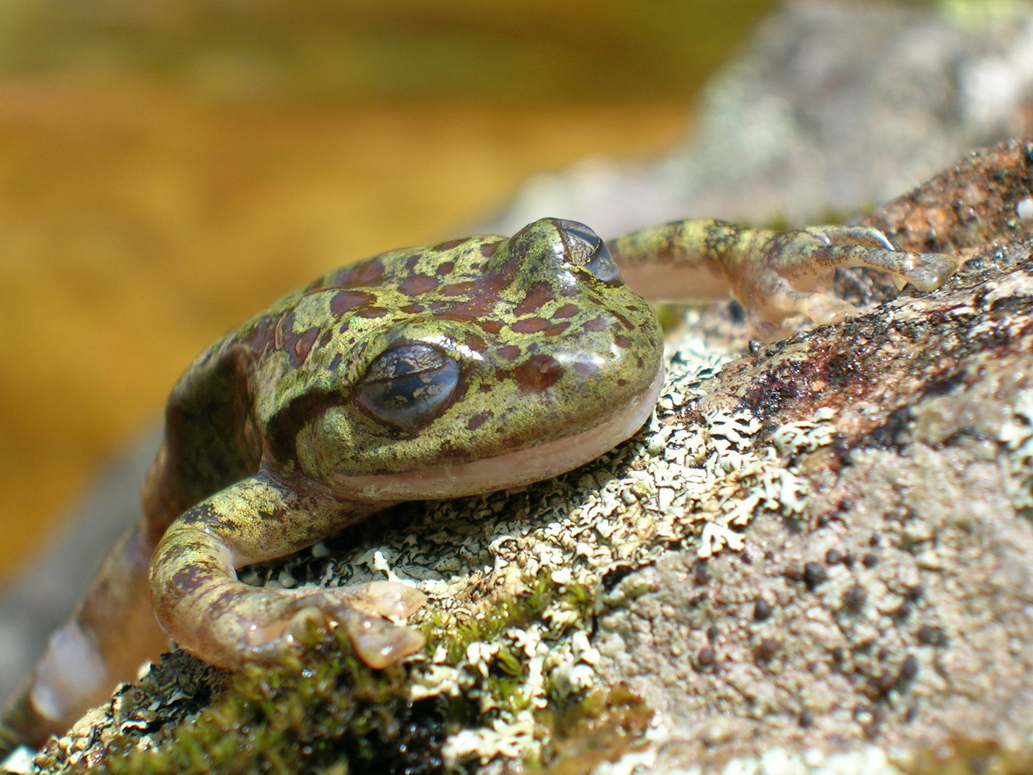 Photo of Heleophryne purcelli uploaded from iNaturalist.